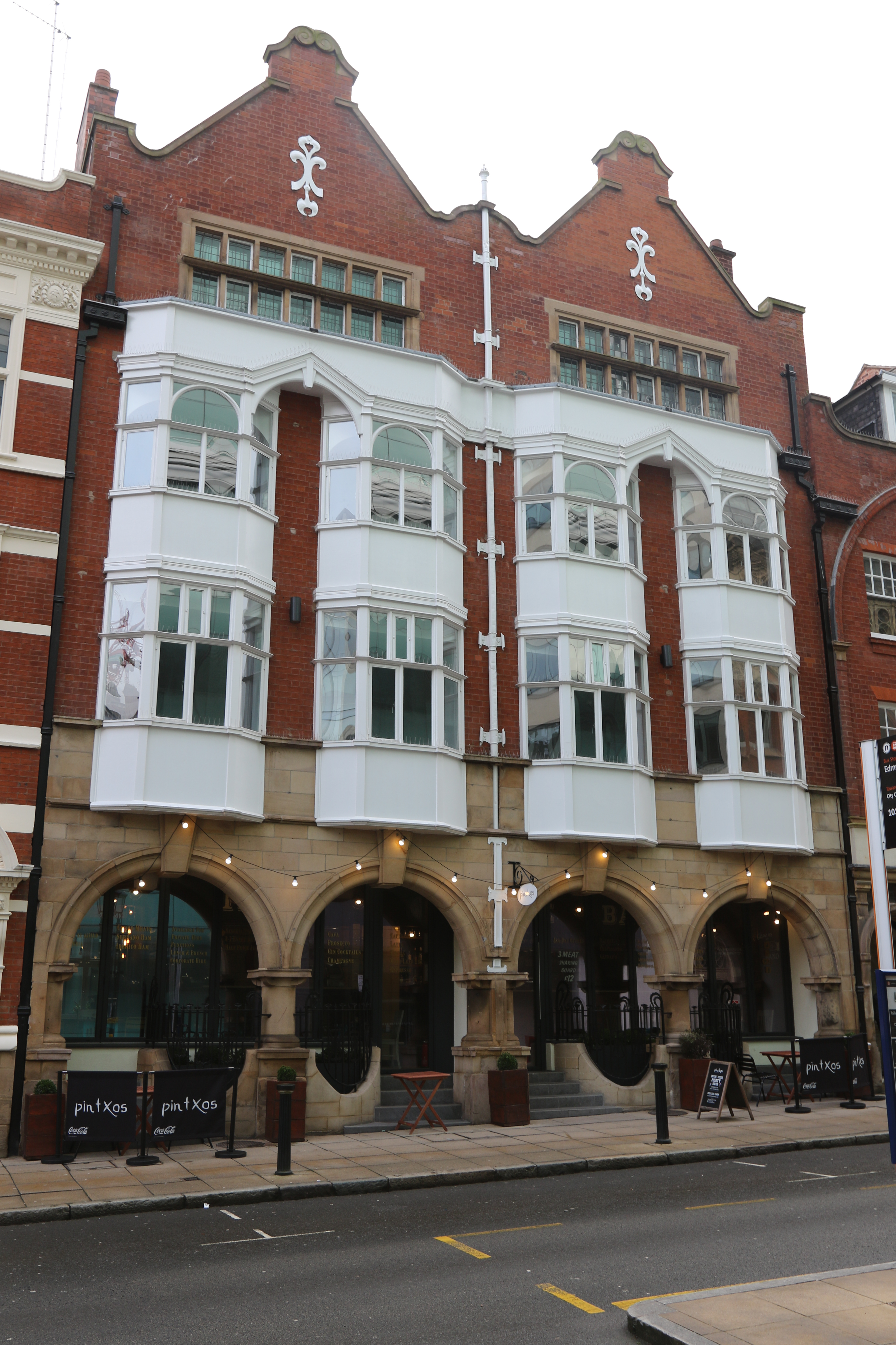 Built 1898-1900 by Newton and Cheatle as the offices for their Architects' practice.